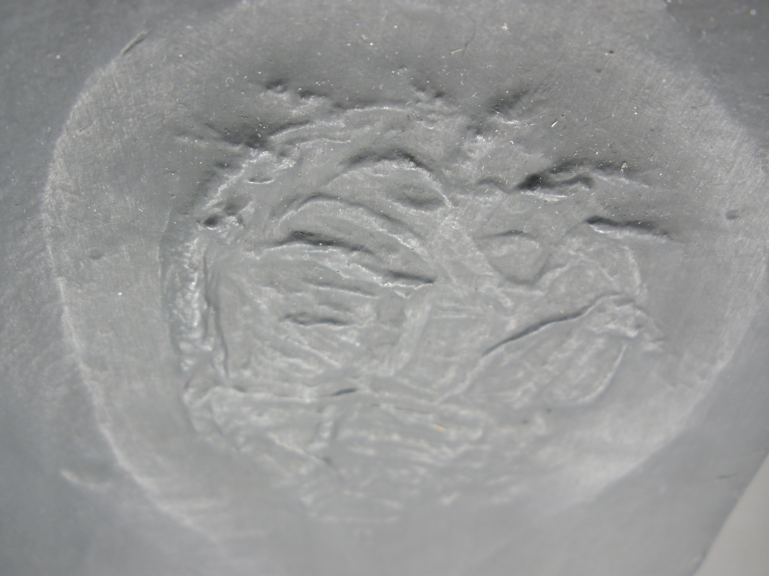 Weinbergina opitzi fossil at the Museo di Storia Naturale di Verona